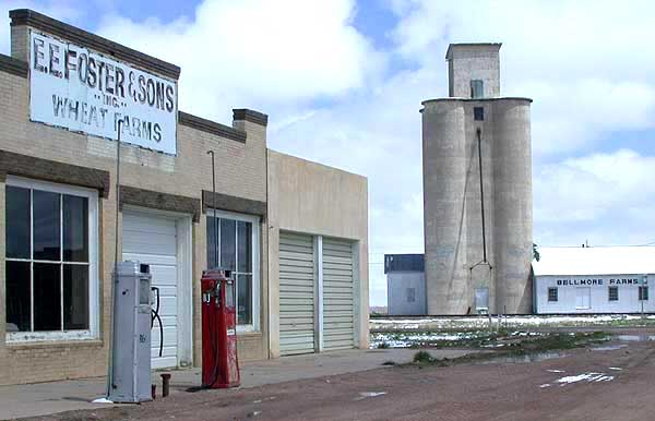 Former gas station and grain elevator tower in Nunn, Colorado, looking east from Logan Street towards U.S. Highway 85.